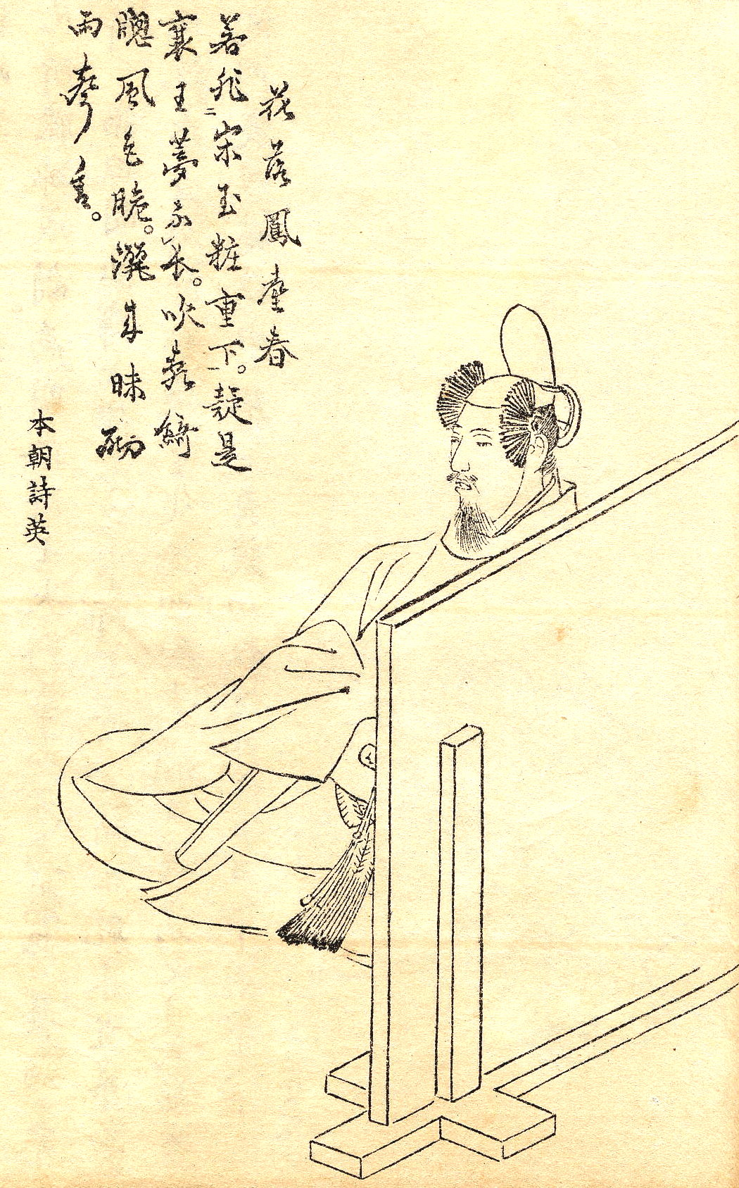 Ōe no Otondo(大江音人) was a Japanese court noble and Scholar in the Heian era.